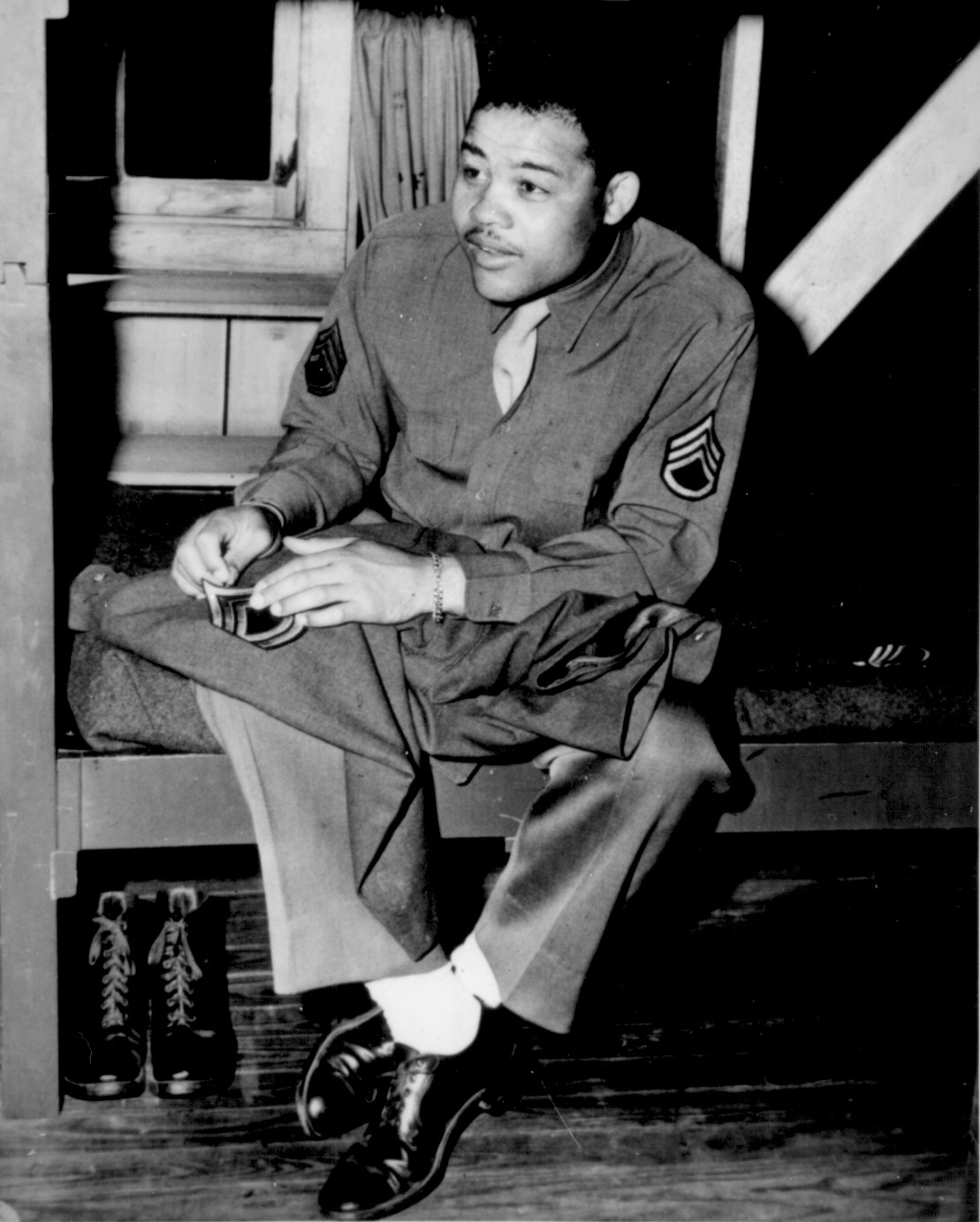 "World Heavyweight champ Joseph Louis Barrow (aka Joe Louis) sews on the stripes of a technical sergeant--to which he has been promoted..." April 10, 1945